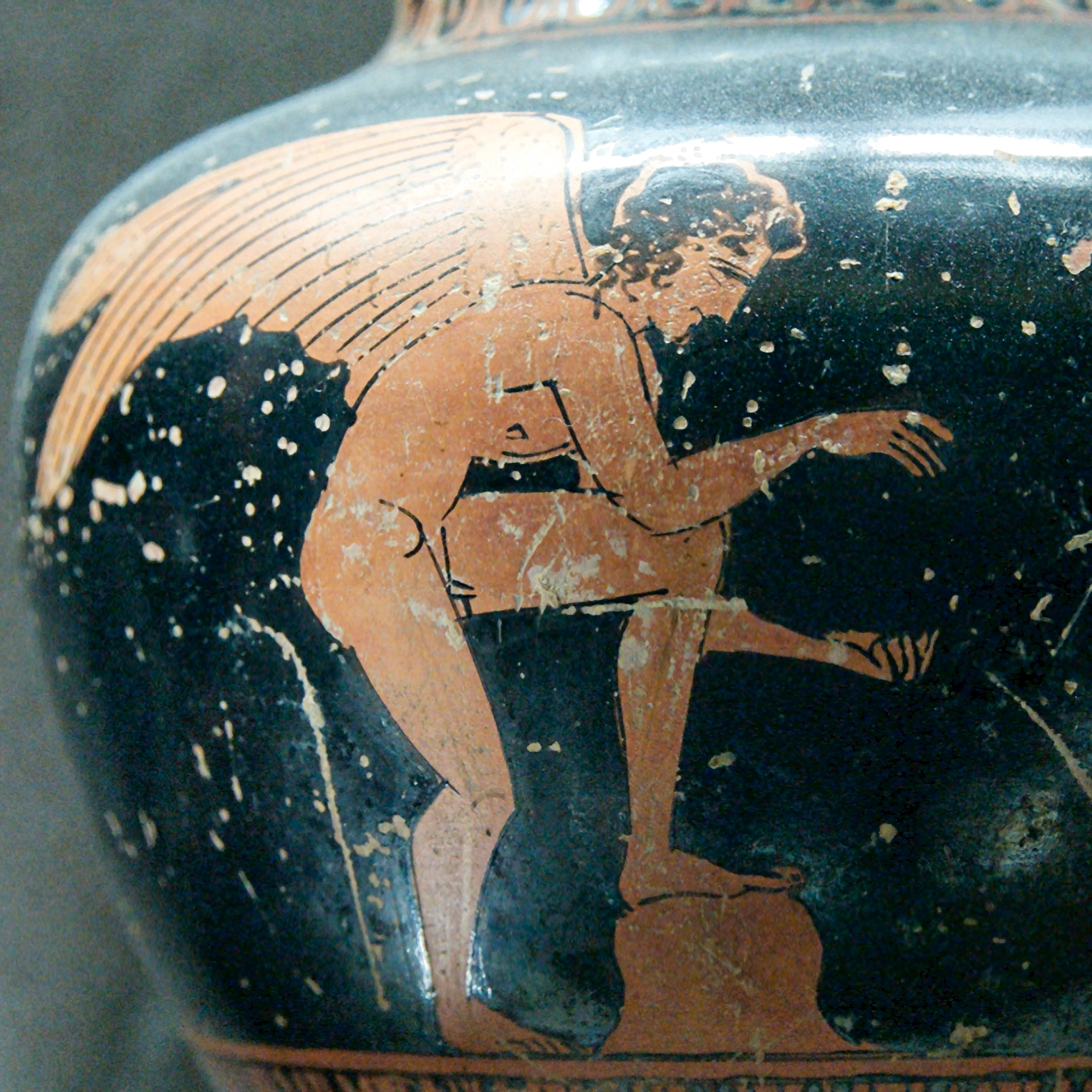 Eros. Attic red-figured oinochoe, ca. 430–425 BC. From Tanagra.